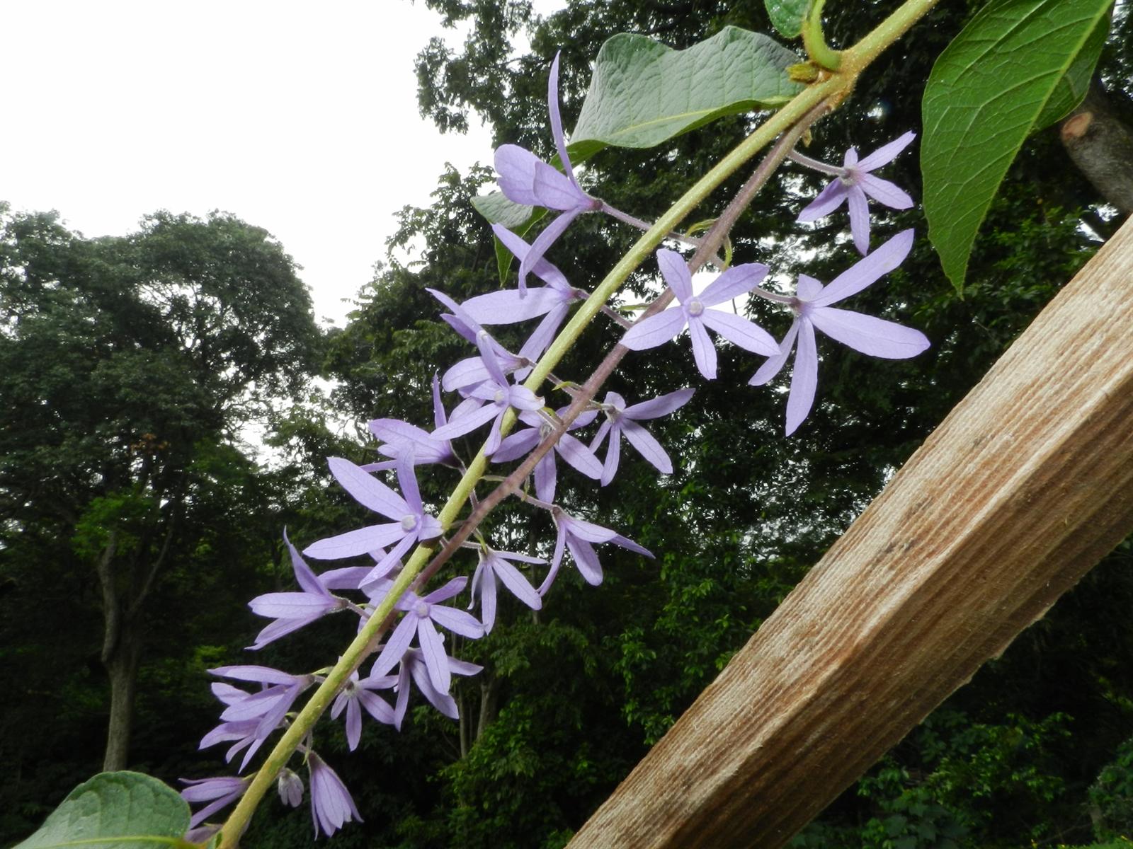 Petrea volubillis in El Crucero, Managua, Nicaragua.